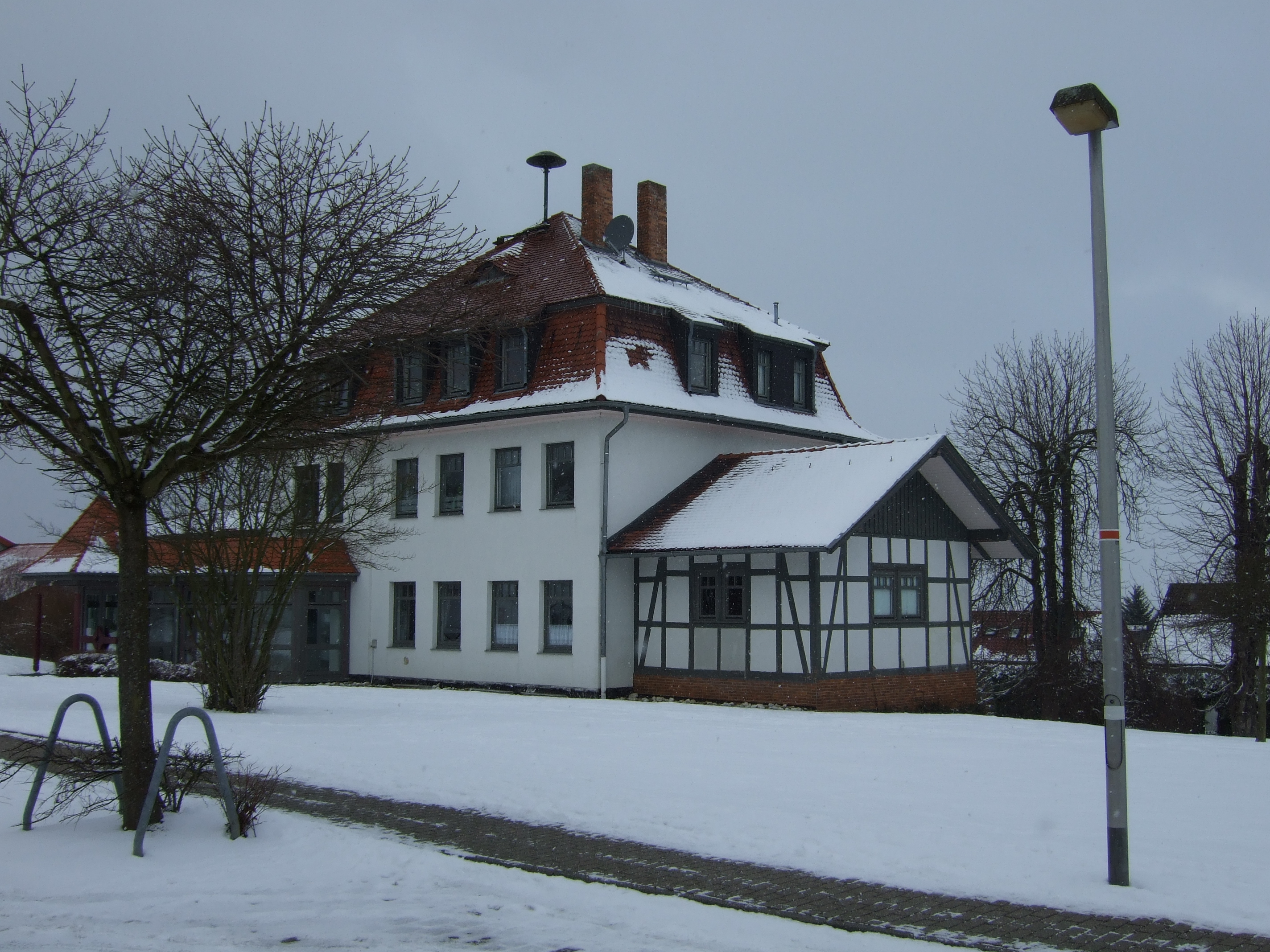 Former Railstation Wellerode Wald